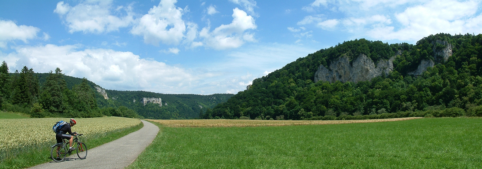 DonauRadweg between Mühlheim and Fridingen in Upper Danube Valley in Germany